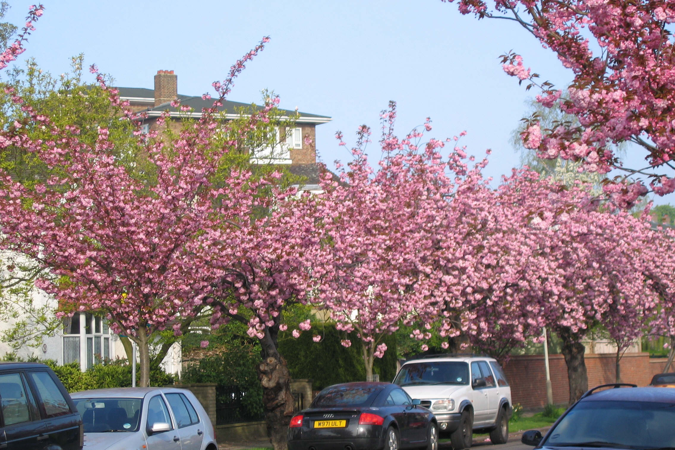 Flowering cherries in Staveley Road, Chiswick. This image was on Wikipedia and is moved by its author.